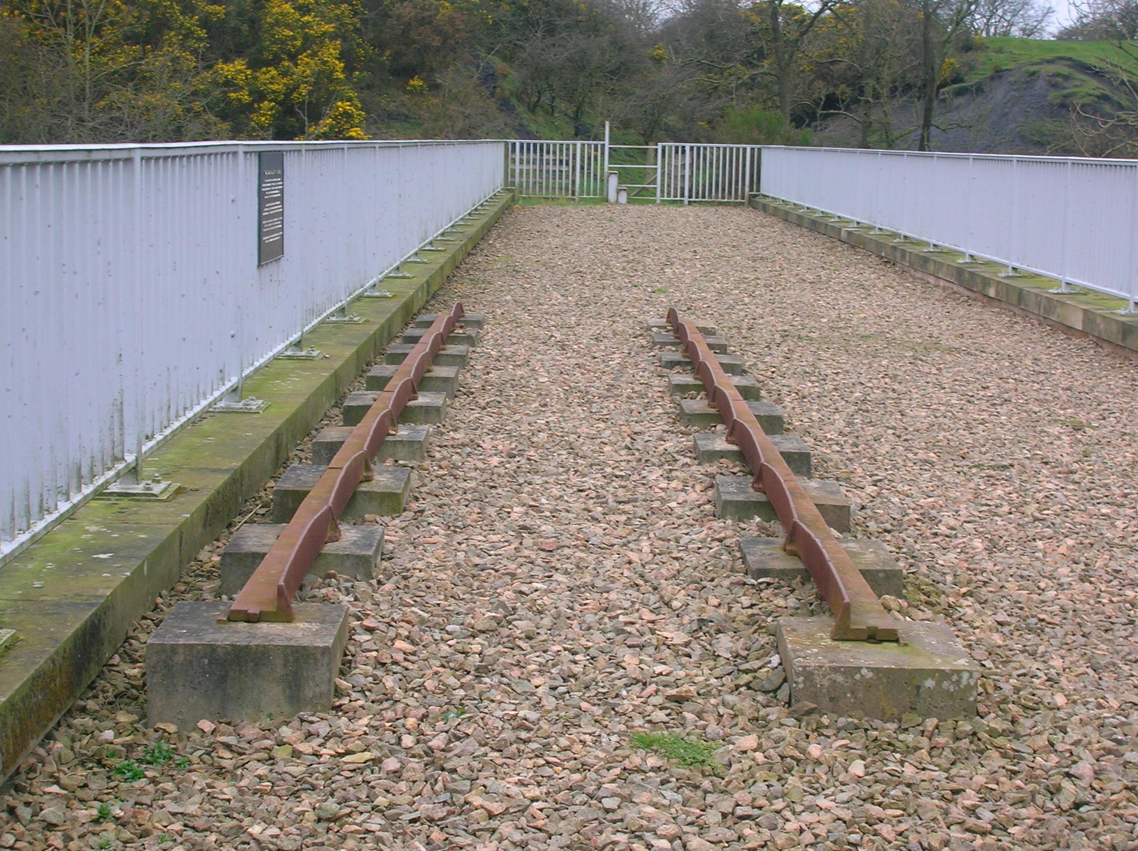 Laigh Milton viaduct. North Ayrshire. 2007. The section of replica track of the Kilmarnock & Troon plateway.